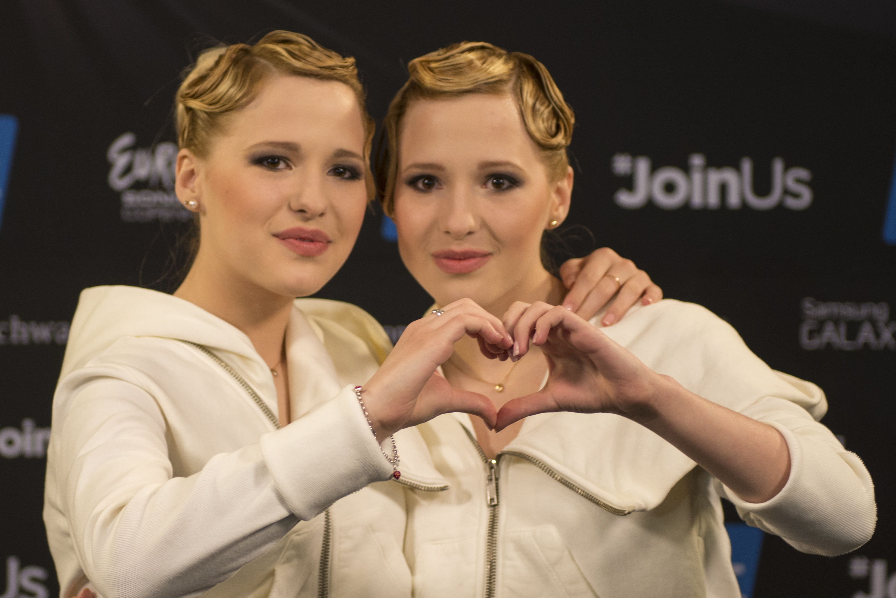 The Tolmachevy Twins at a Meet & Greet during the Eurovision Song Contest 2014 Copenhagen. (Help translate this text)